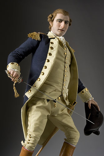 Historical Mixed Media Figure of Benedict Arnold produced by artist/historian George S. Stuart and photographed by Peter d'Aprix. This image, from the George S. Stuart Gallery of Historical Figures® archive ( is provided for all uses with appropriate attribution. Any derivatives must be shared in the same manner. Contributor mharrsch is webmaster for the gallery site.